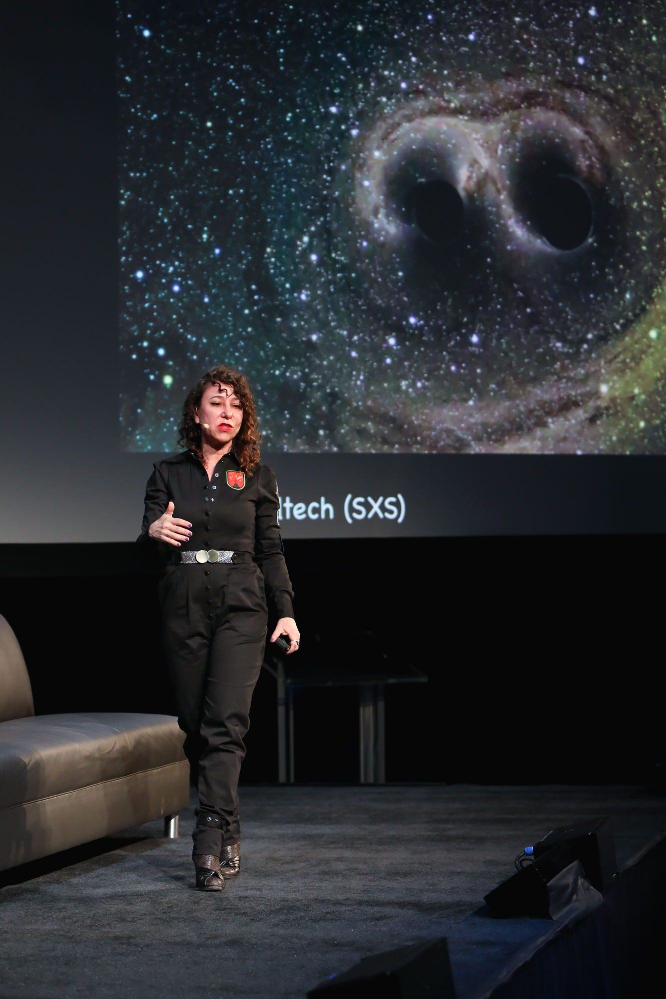 Janna Levin gives the afternoon keynote at Beyond the Cradle 2019. Photo by Jon Tadiello